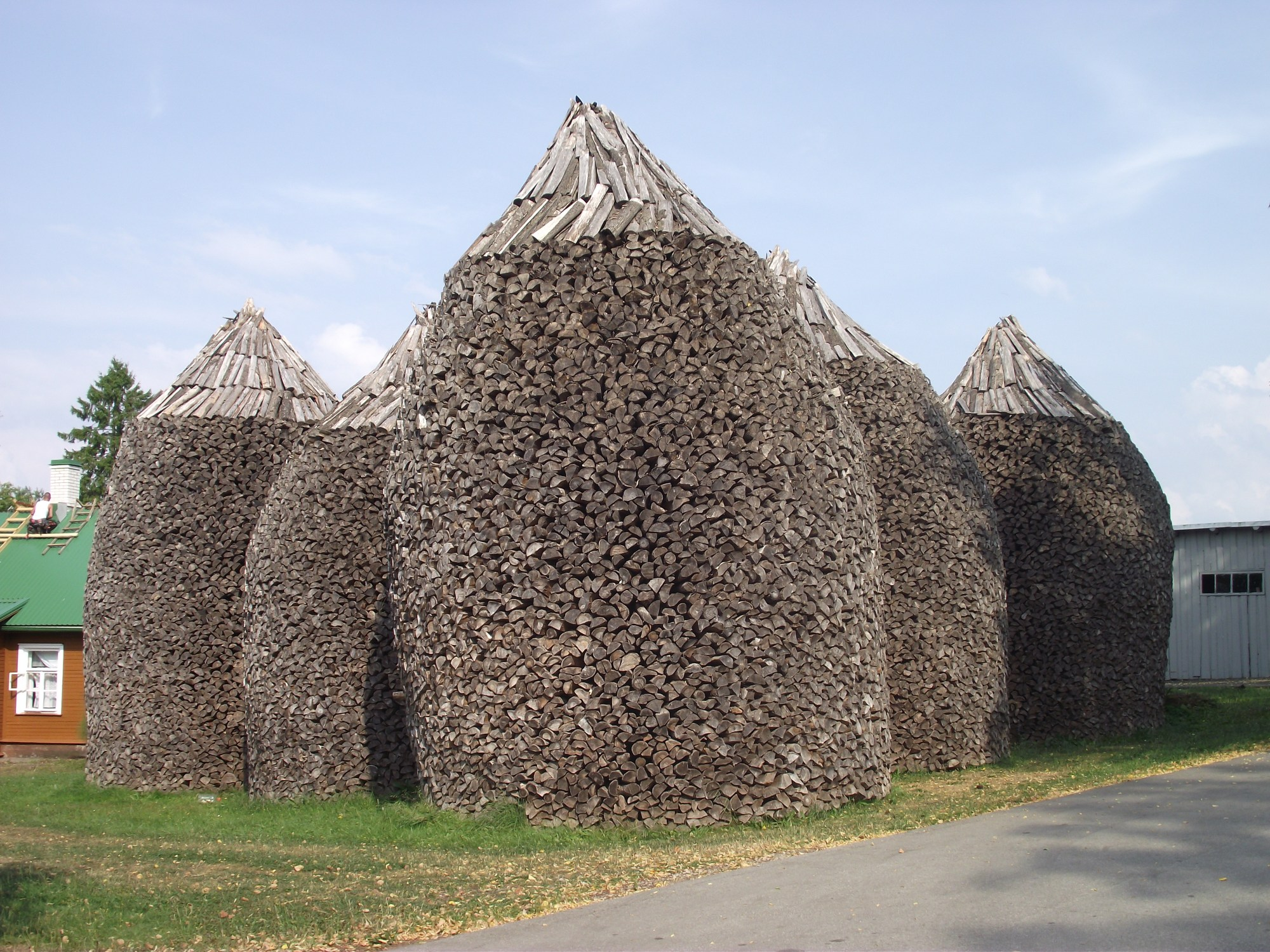 Woodpiles in Pühtitsa Convent.